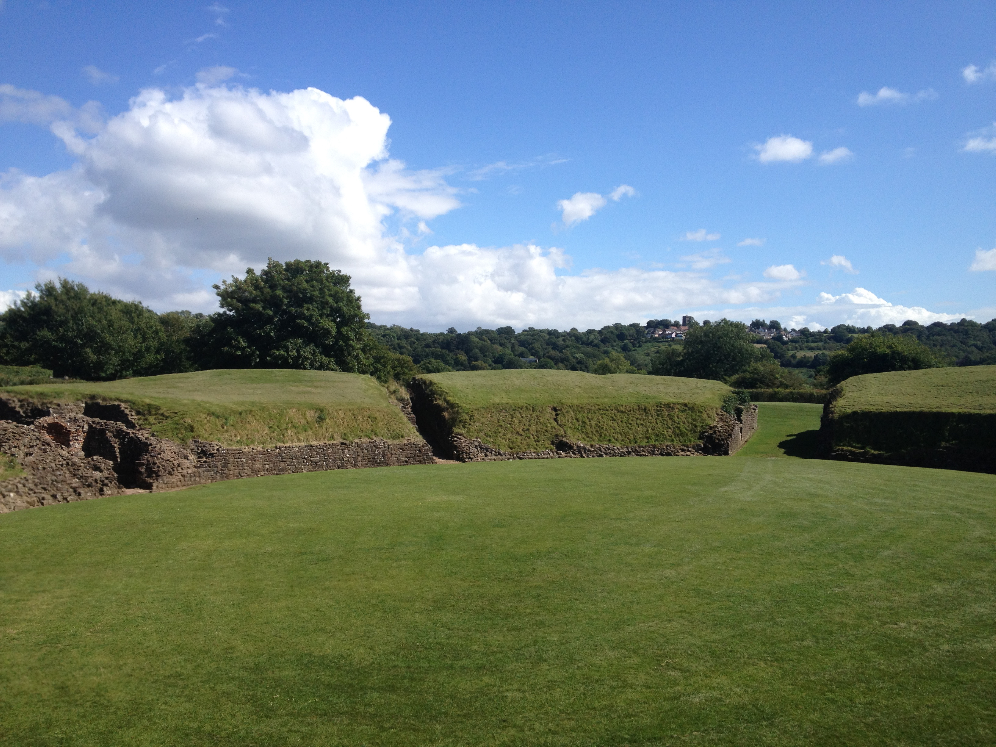 A picture of the Caerleon Roman Amphitheater, which is the best preserved Roman Amphitheater in the United Kingdom. Built in AD90, it was used for events such as gladiator combats and executions.